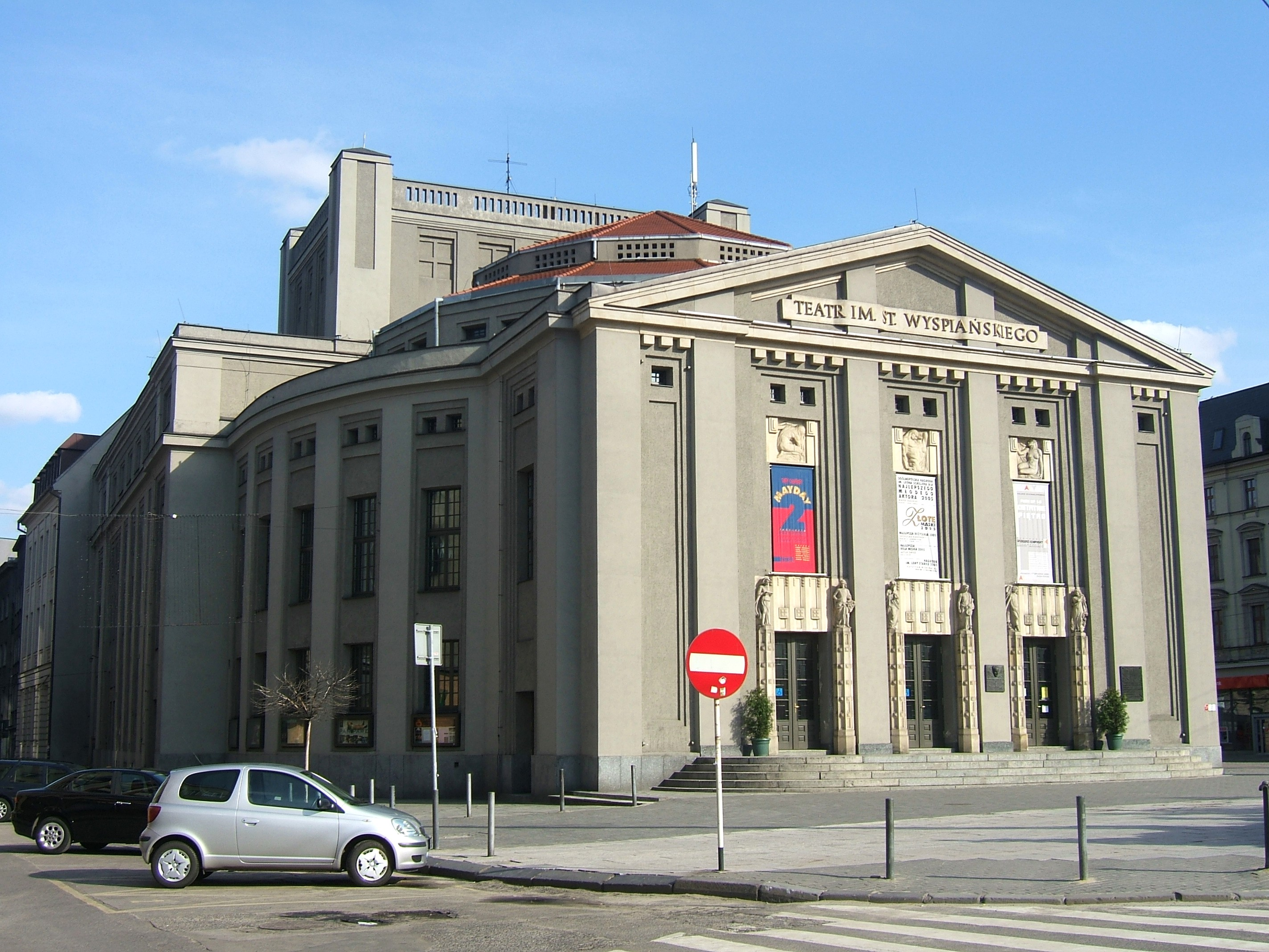 The Silesian Theater (Teatr Śląski im.Stanisława Wyspiańskiego) in Katowice (1905-1907).